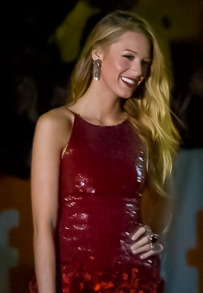 An American actress Blake Lively at the premiere of "The Town" directed by Ben Affleck, during the Toronto International Film Festival, 2010.